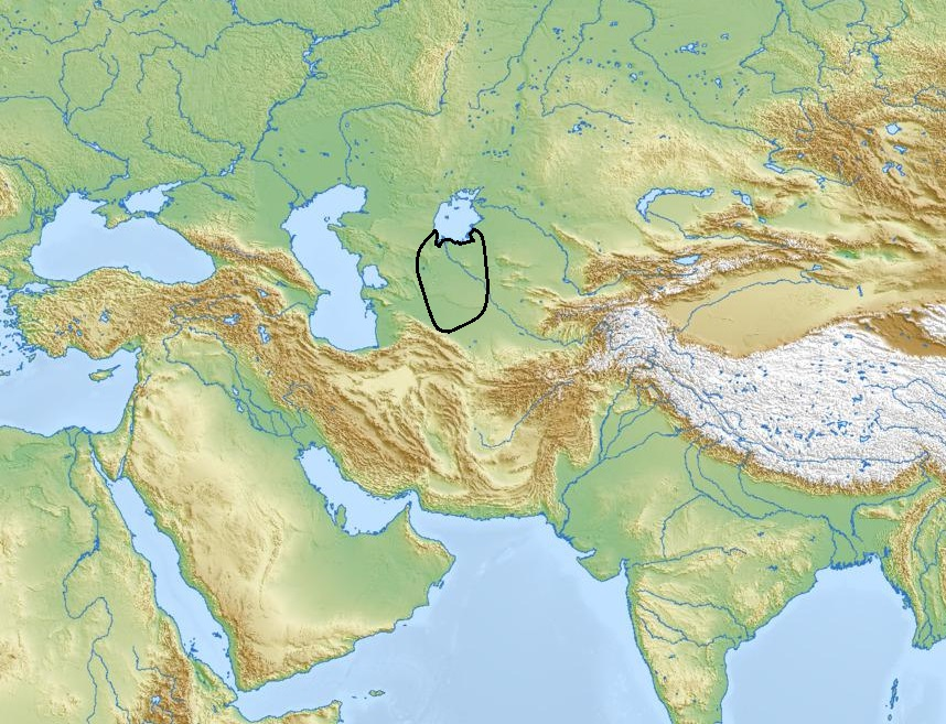 Map of the Tazabagyab culture, based on a map printed at page 556 in Encyclopedia of Indo-European Culture, which was edited by J. P. Mallory and Douglas Q. Adams, and published by Taylor & Francis in 1997.